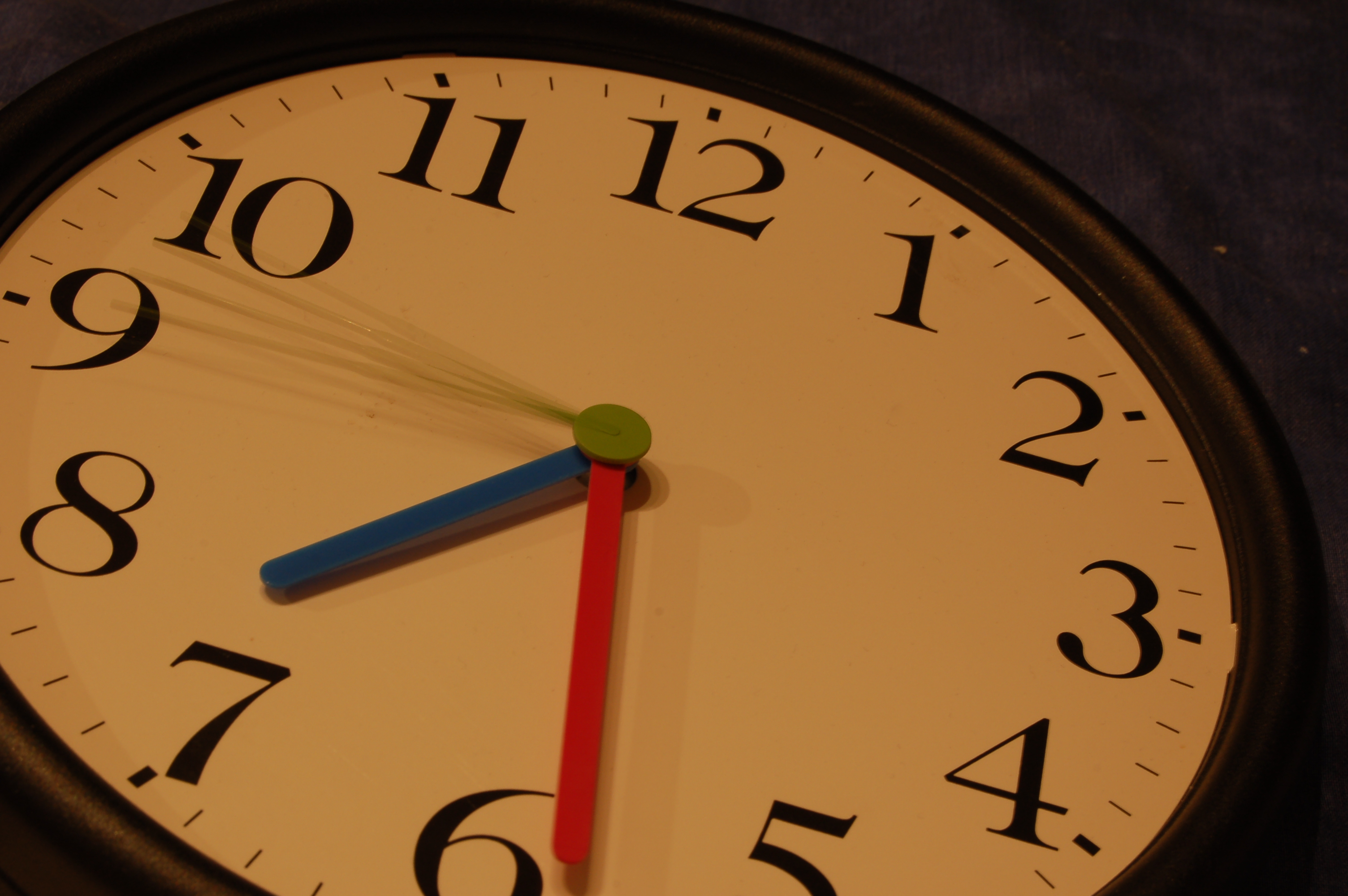 A long time photo of a wallclock.